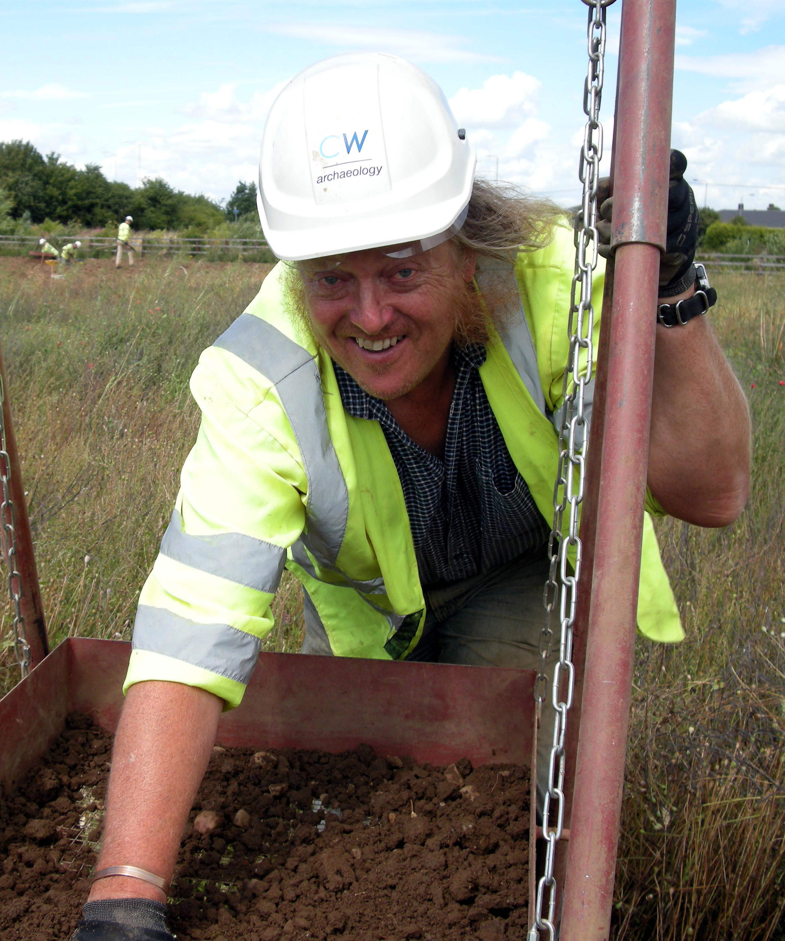 A46 Newark to Widmerpool scheme, Nottinghamshire: Phil Harding, star of 'Time Team' sifting soil from the Farndon site looking for flint. These were unearthed by archaeologists working on the Highways Agency scheme. [Image used with permission from Cotswold and Wessex Archaeology]